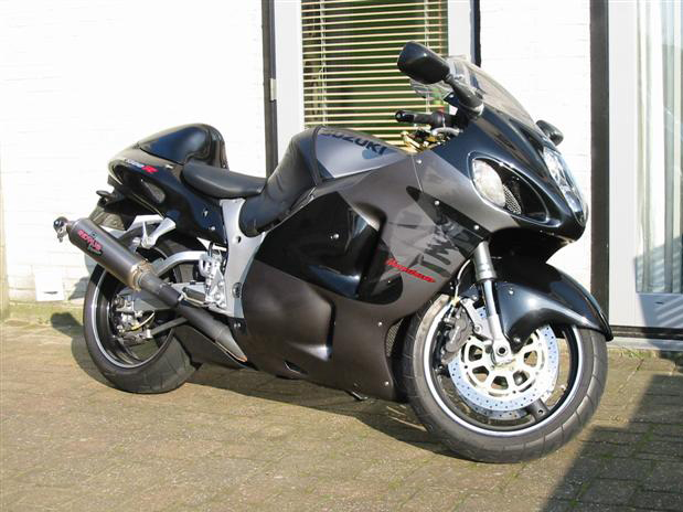 Colormodel 1999